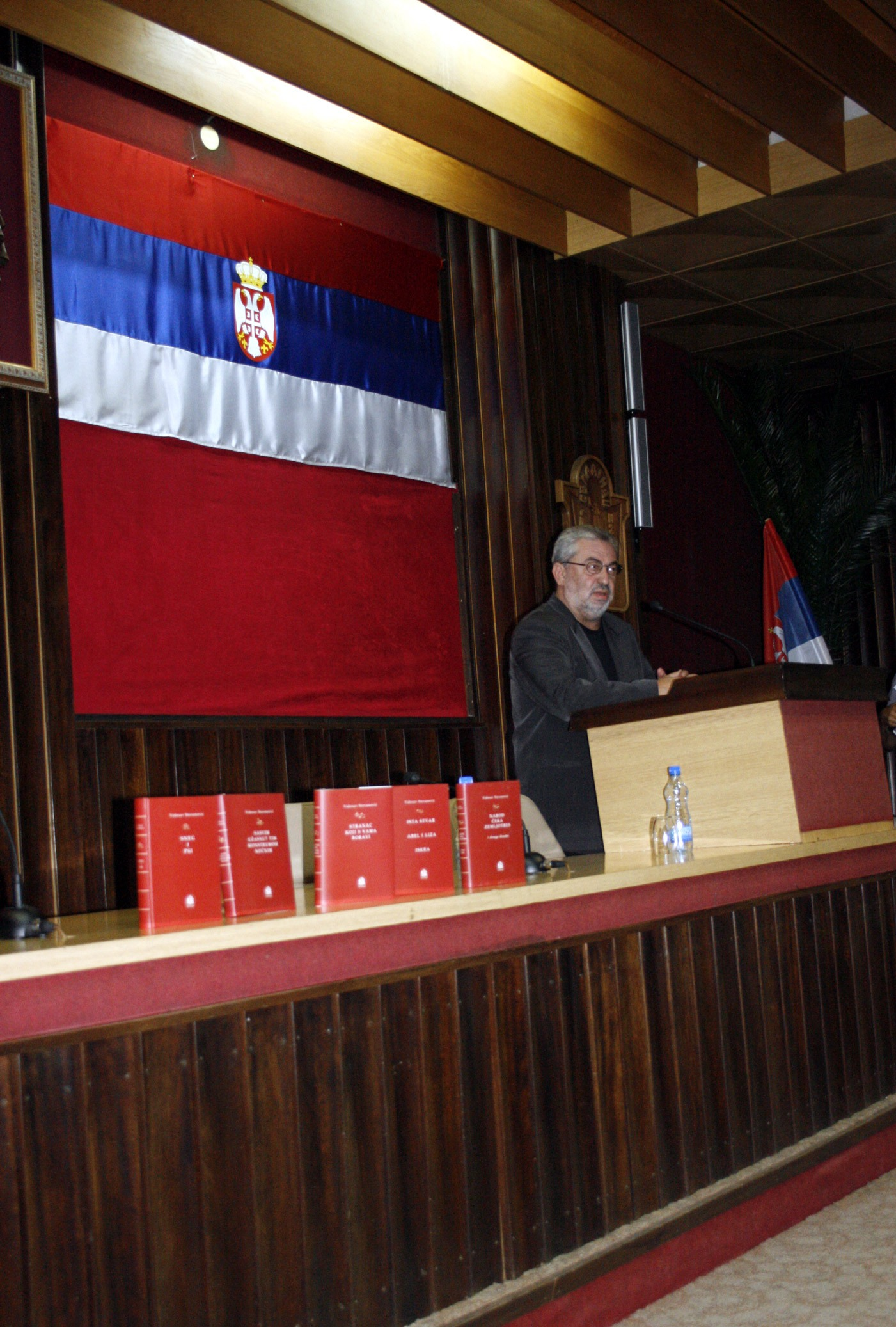 Photo of Vidosav Stevanović.